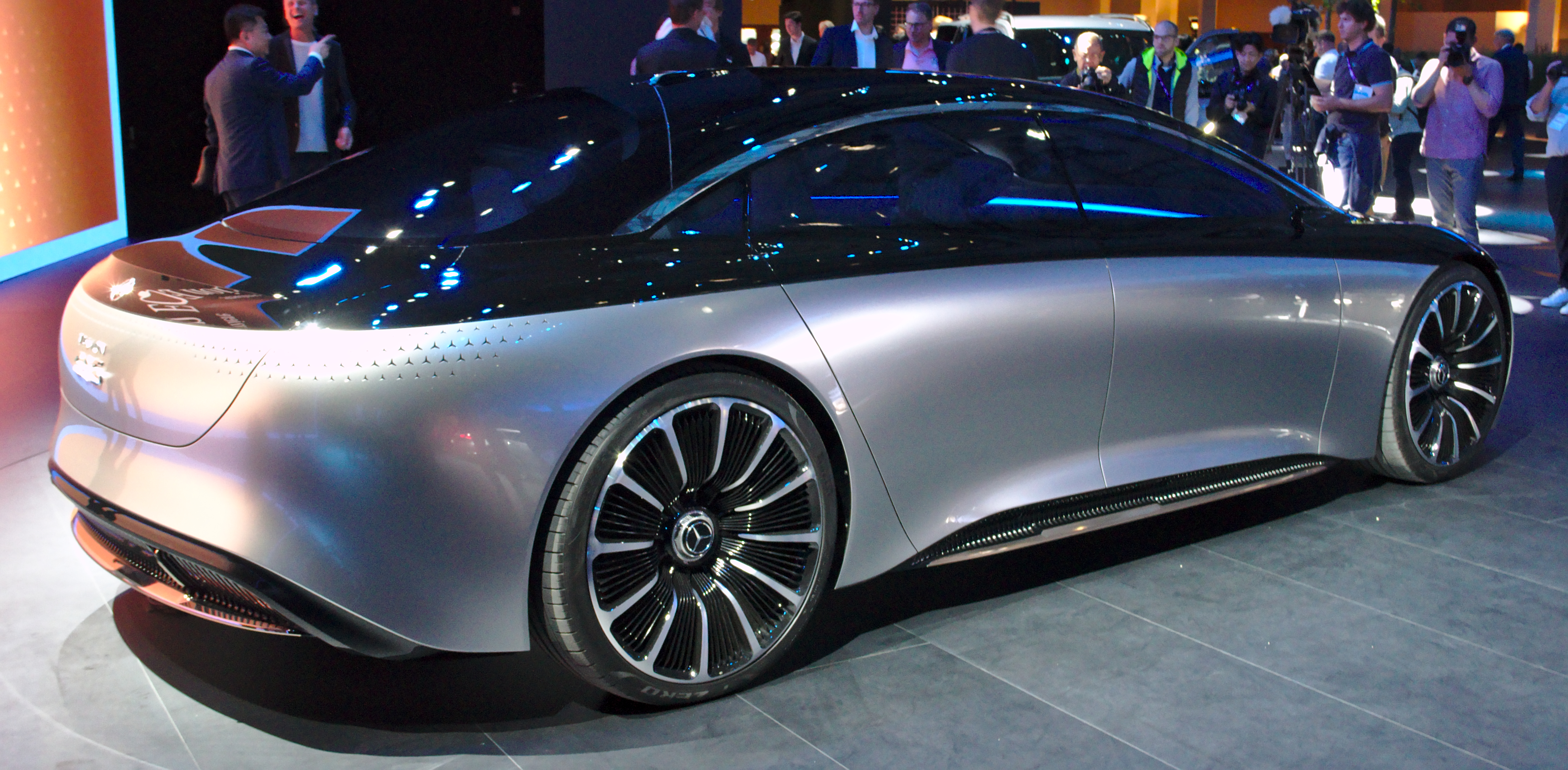 Mercedes-Benz_Vision_EQS at IAA 2019